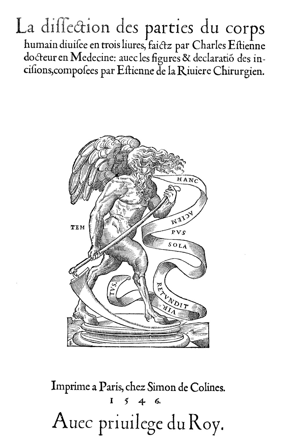 Simon de Colines (1480-1546) La dissection des parties du corps humain divisée en trois livres... 1546 Simon de Colines (1480-1546) The dissection of the parts of the human body divided into three books... 1546